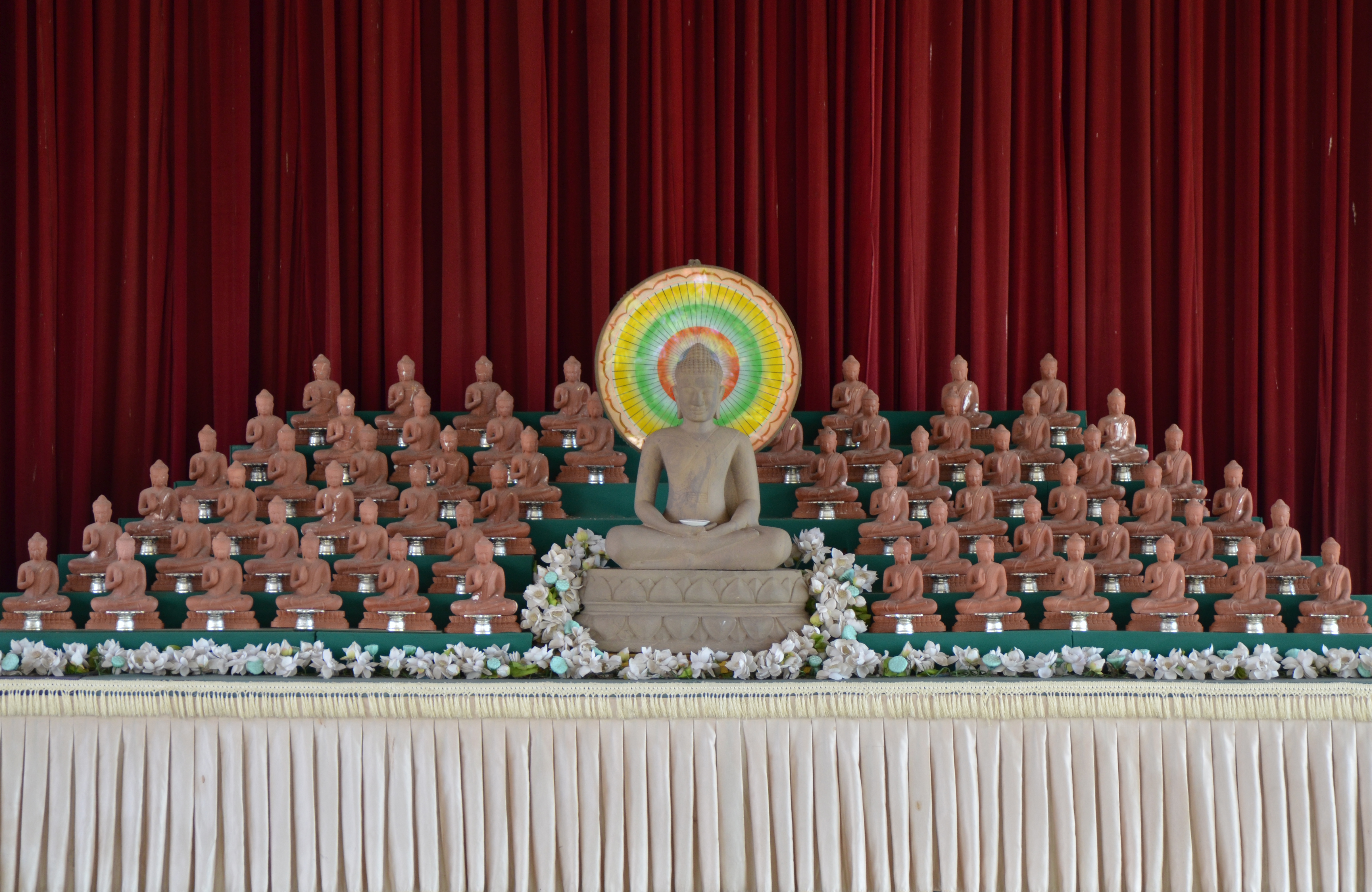 Statues of Buddha in the Reception Hall of the Royal Palace in Phnom Penh